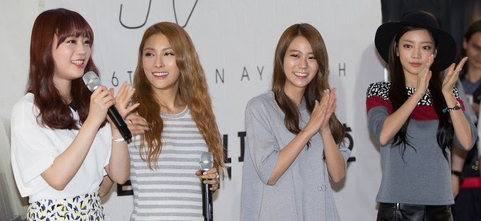 Kara at the fansigning for their mini album "Day & Night", 30 August 2014